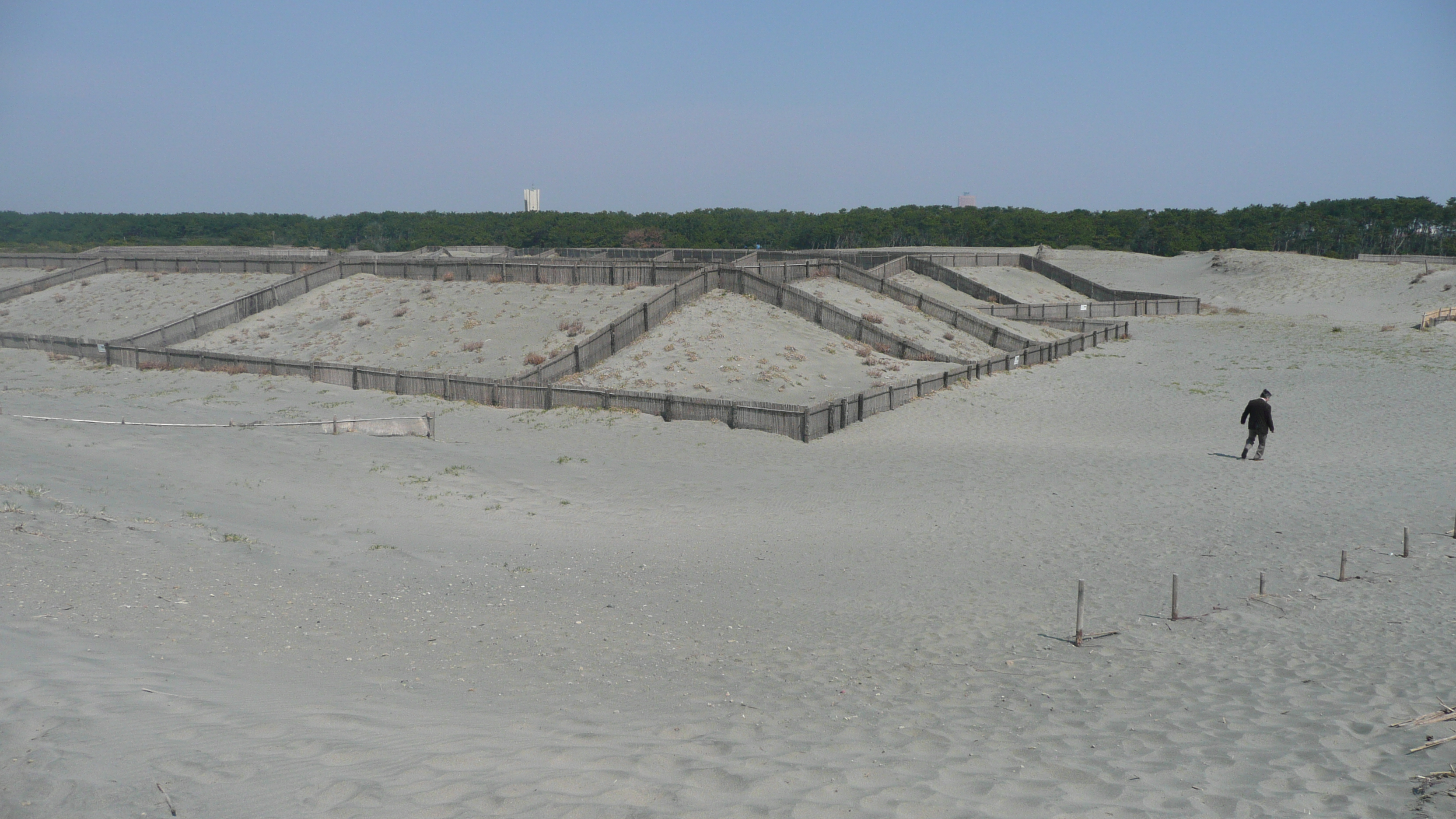 Nakatajima Sand Dunes, Hamamatsu, Japan